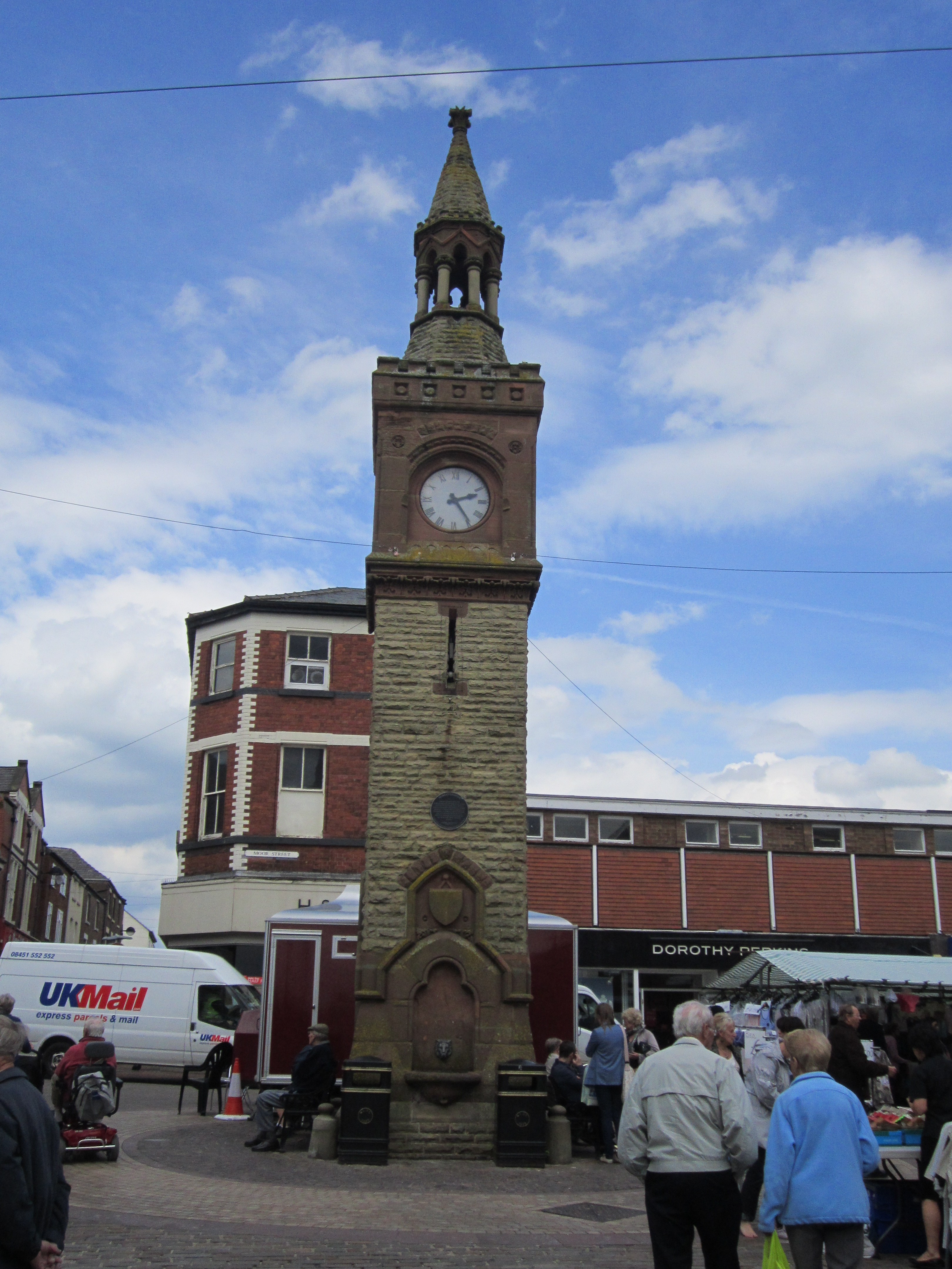 Ormskirk Clock Tower, Lancashire, England.